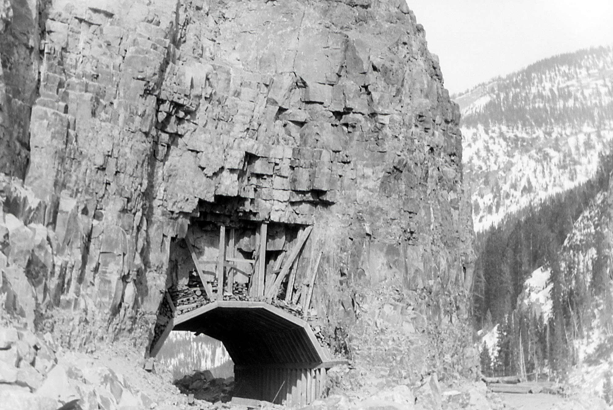 Golden Gate Tunnel, now abandoned and partially collapsed, Yellowstone National Park, Wyoming, USA